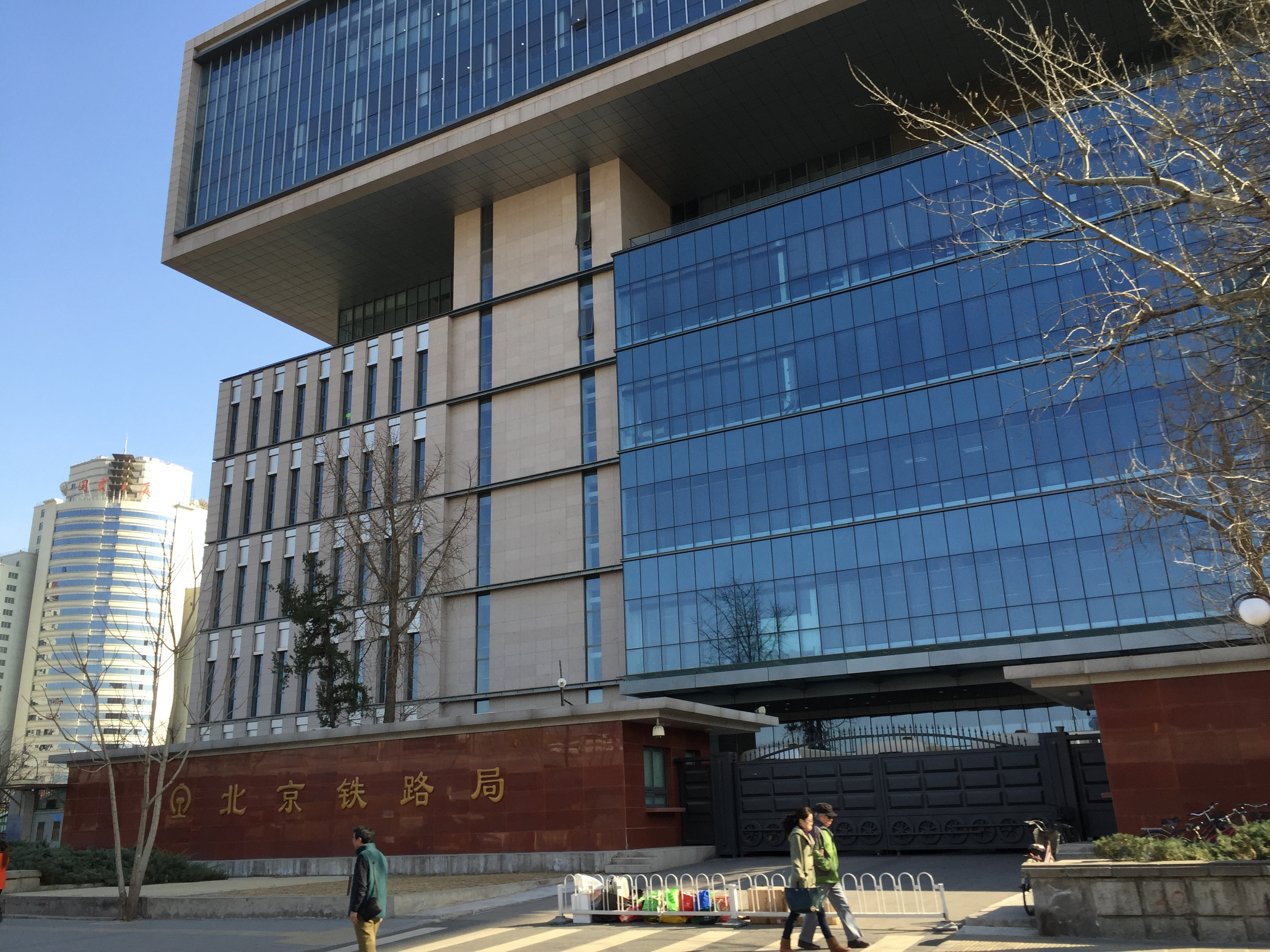 The headquarters of Beijing Railway Bureau.